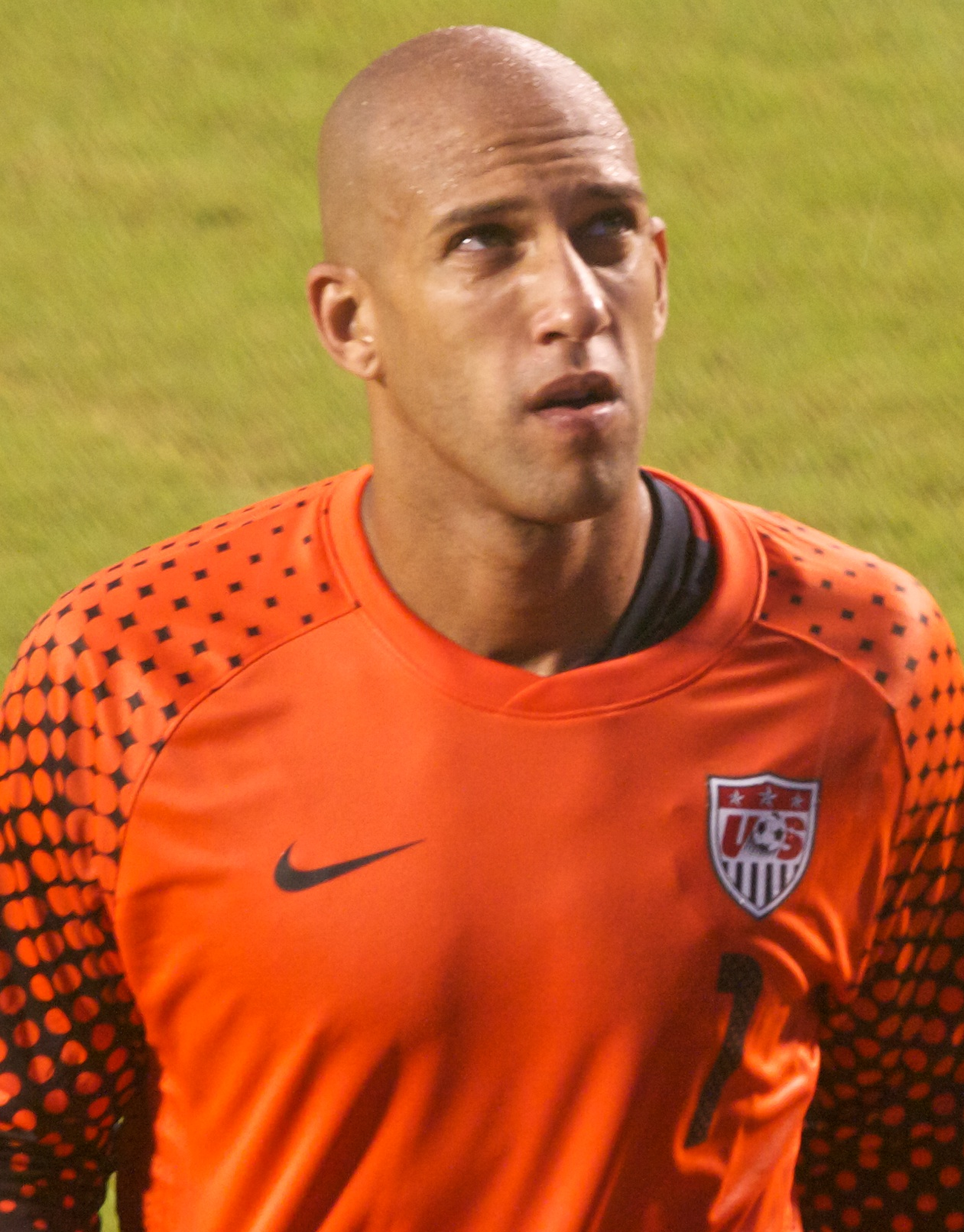 USA - Honduras 5